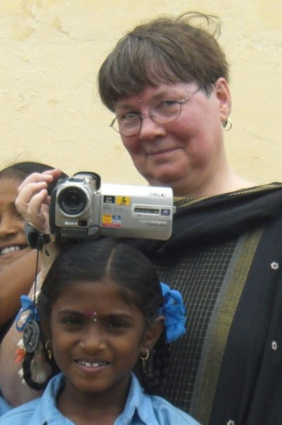 Susan Dray videotaping in a rural Indian school during a study of global education done for Microsoft